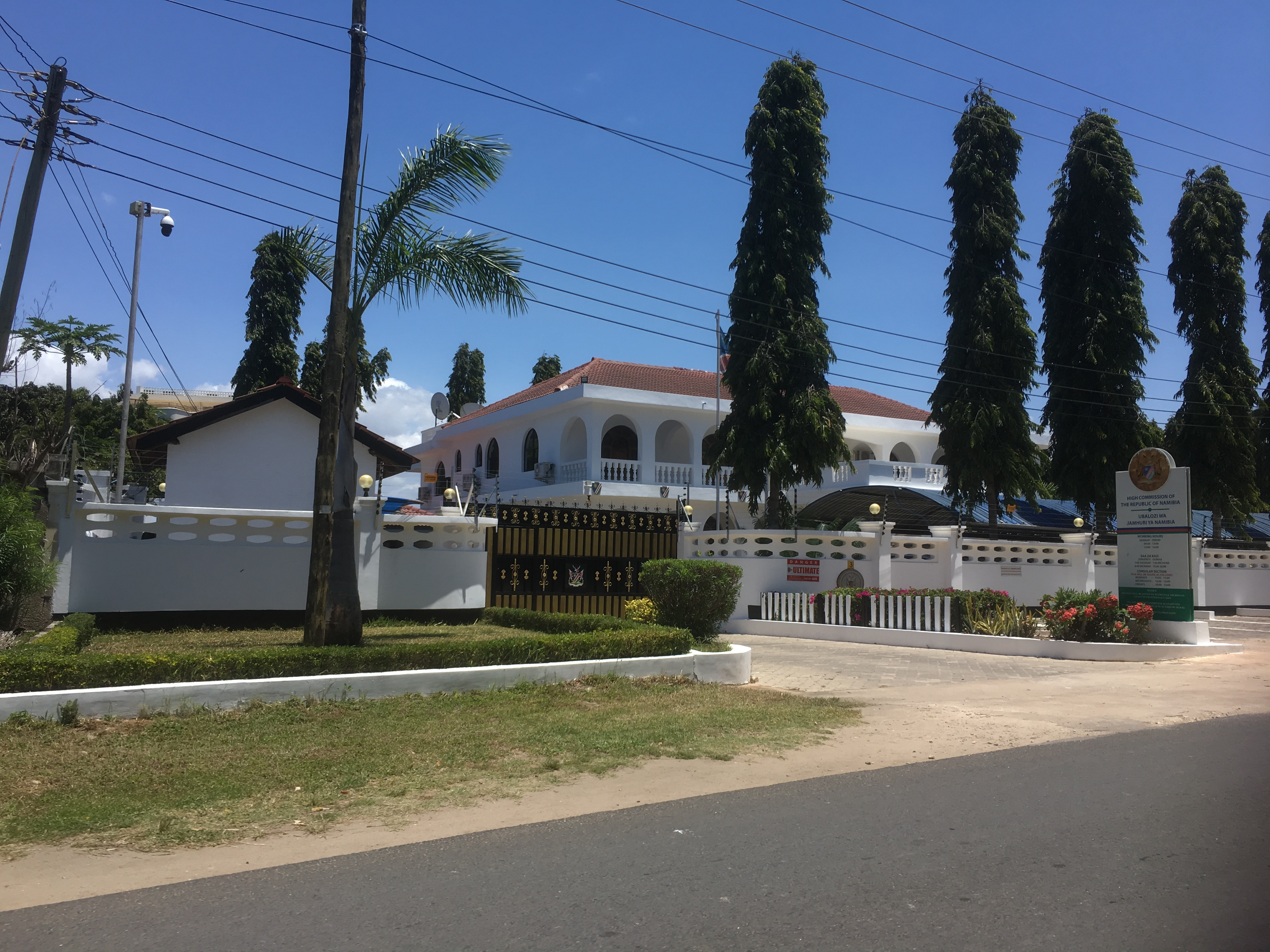 High Commission of Namibia in Dar es Salaam, Tanzania.